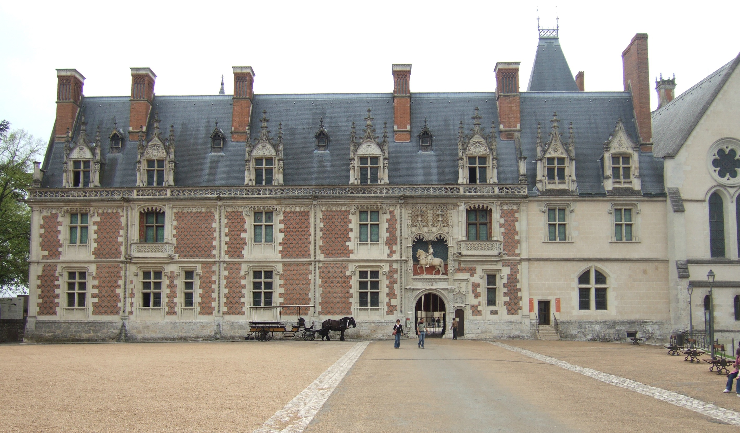 Front of Chateau, from the exterior of the Louis XII wing. Taken by me.